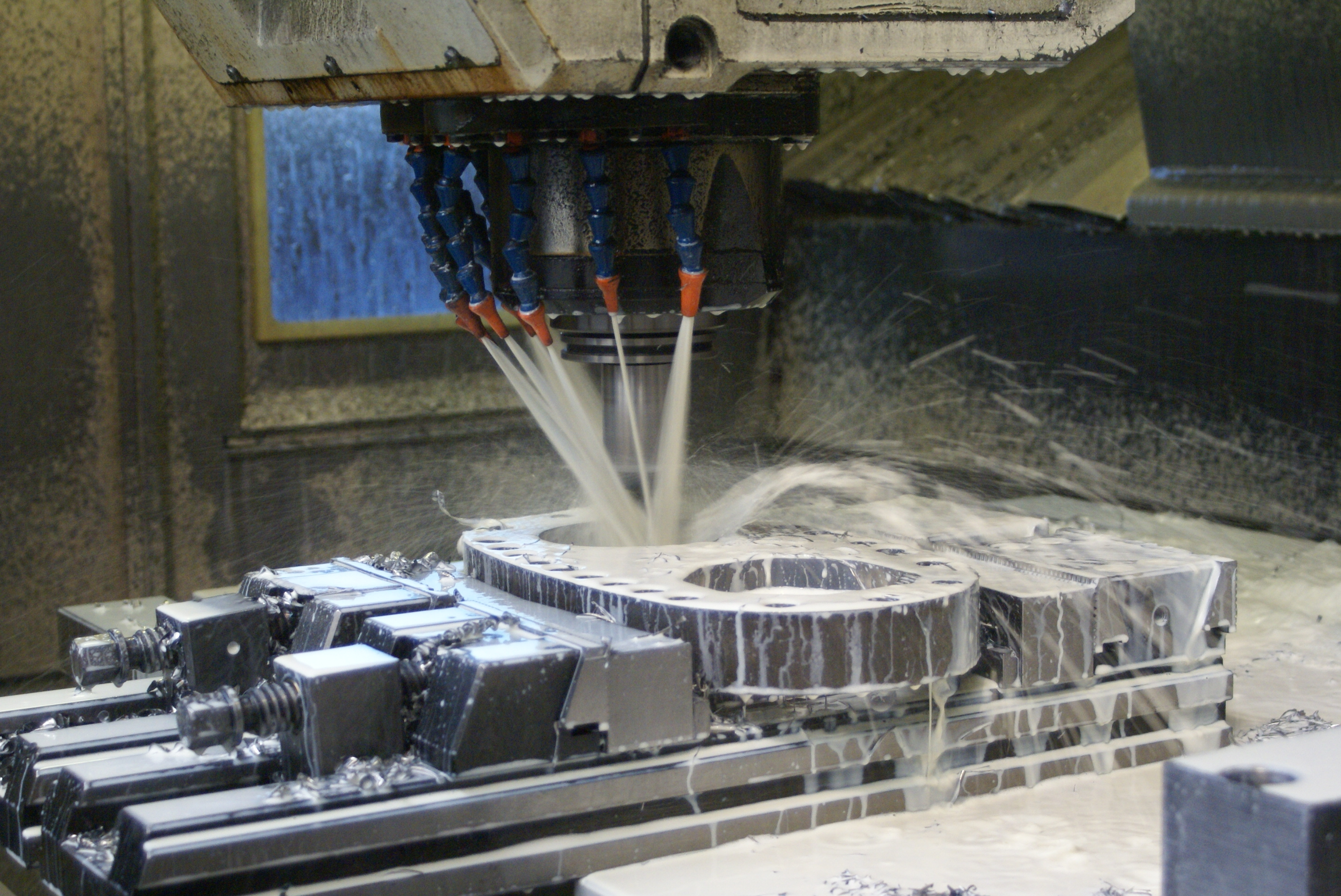 Manufacturing process (milling) of component of HPXdrive by Kinshofer GmbH in Germany, at manufacturing department in Marienstein, Germany